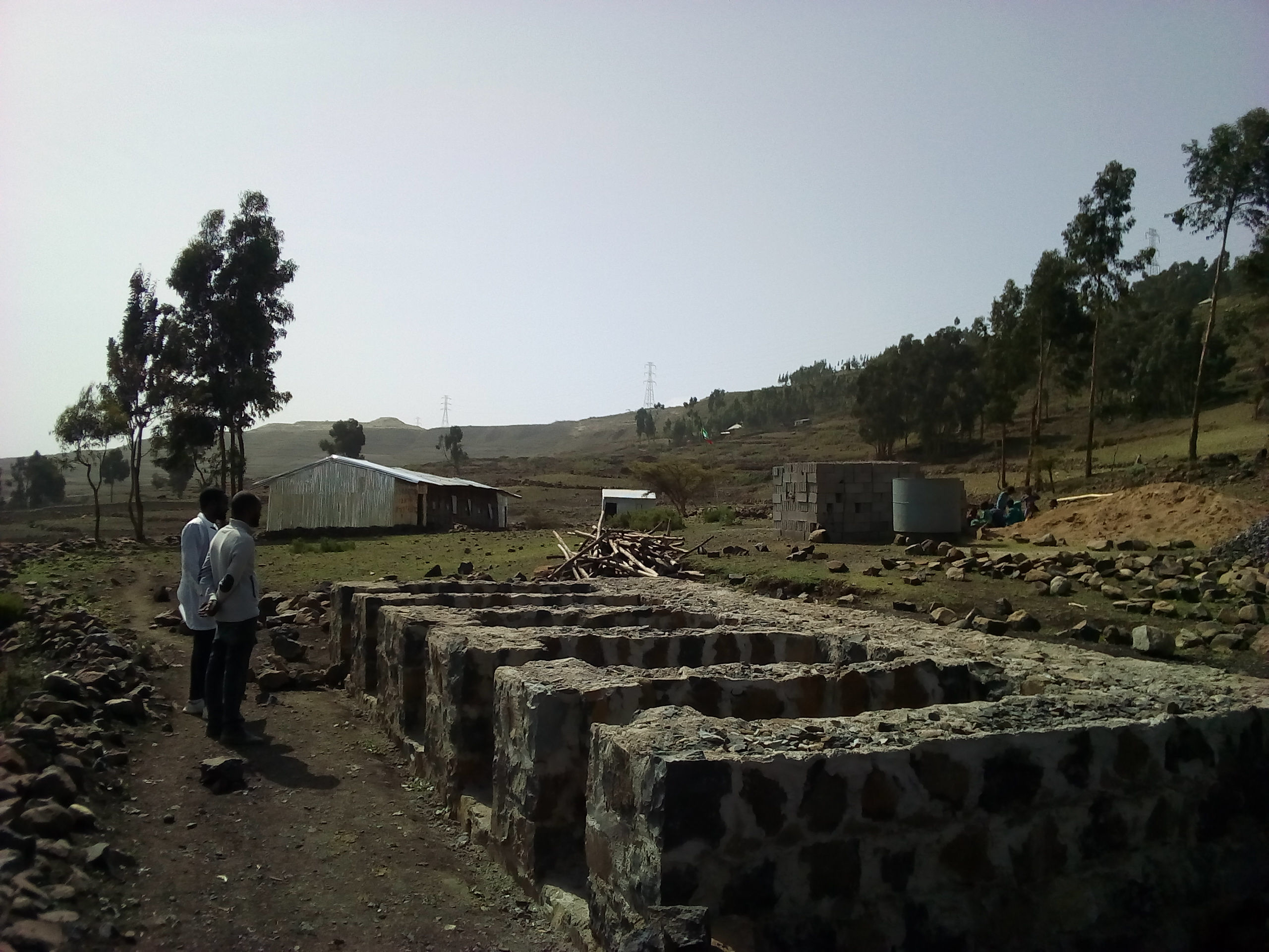 Ecosan toilet under construction in Khunale